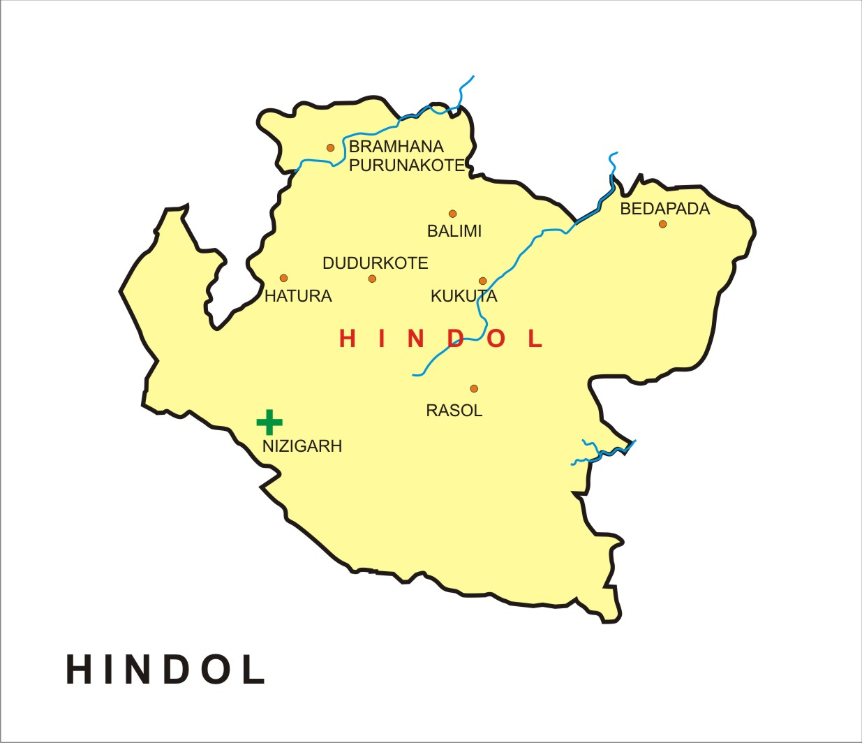 this is Hindol Subdivision Map